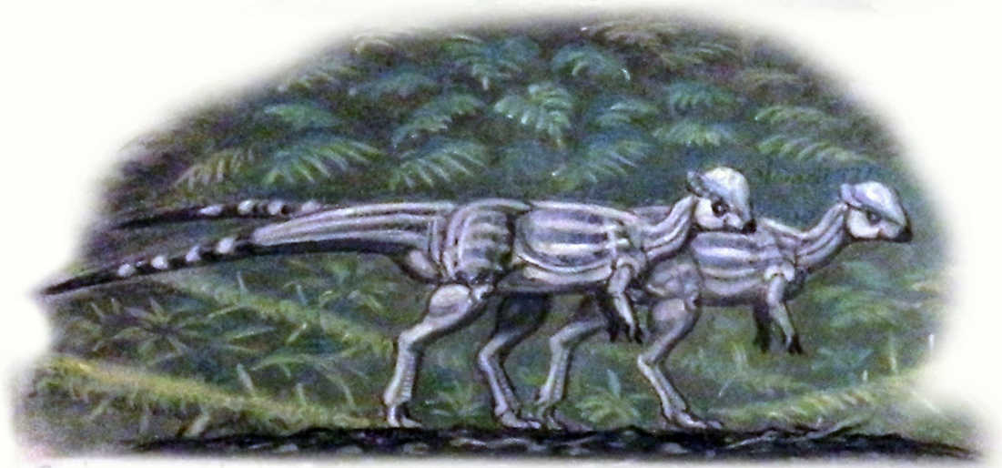 Sphaerotholus in environment.